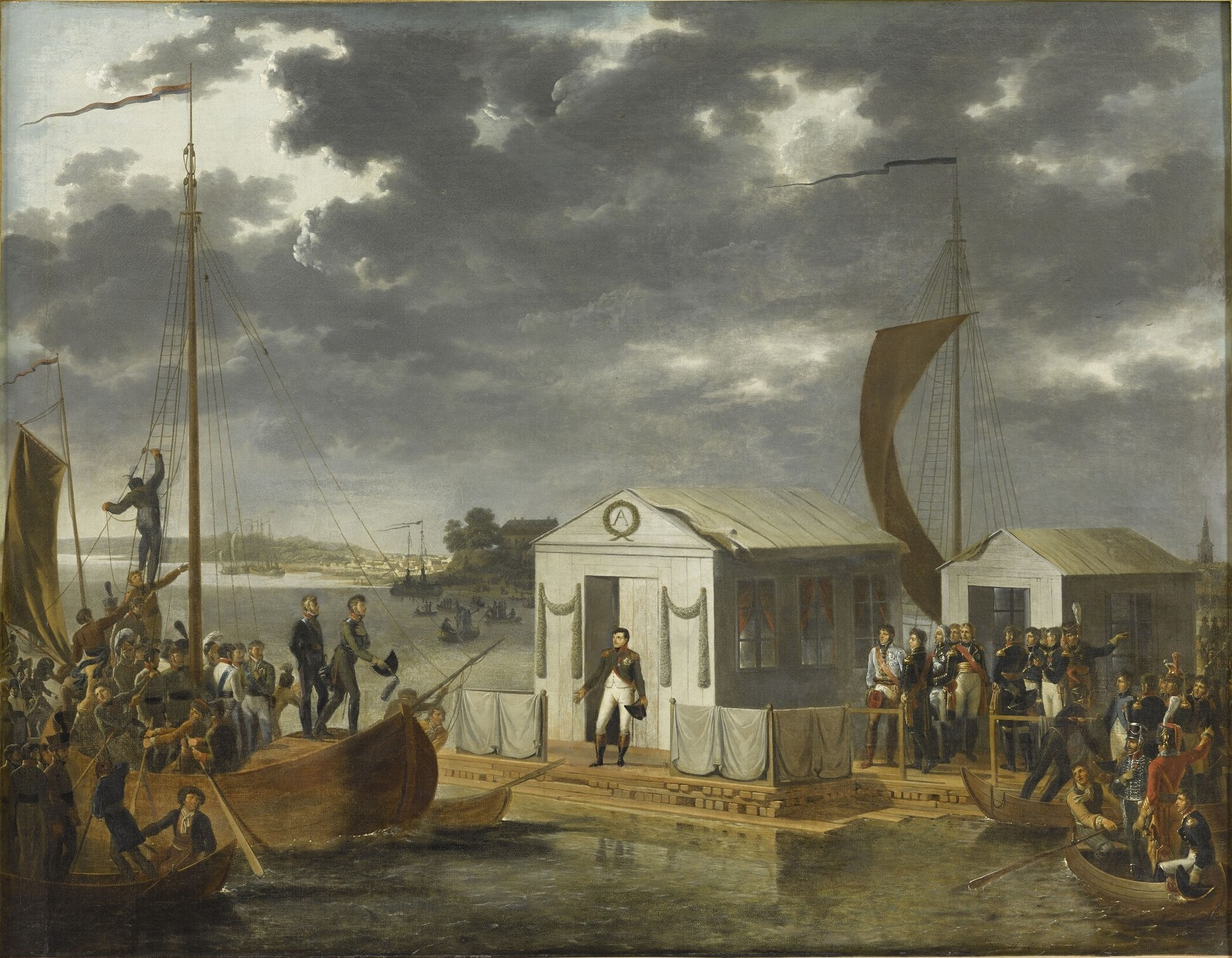 Depicted people: Napoléon and Alexandre Ier, 25 June 1807